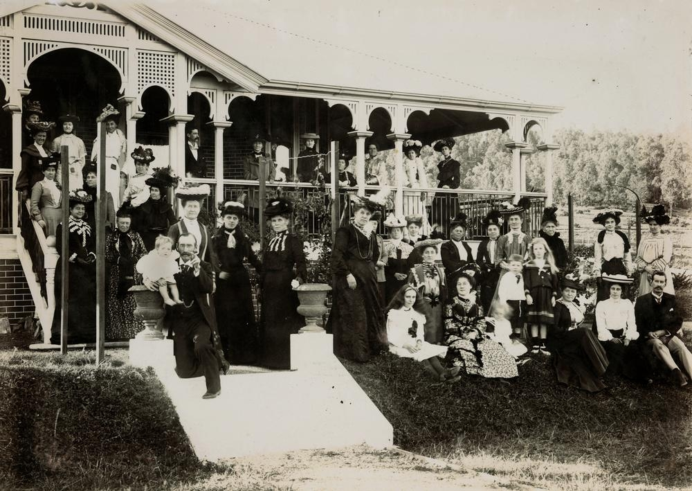 Photographer: Unidentified Location: Newmarket, Brisbane, Queensland, Australia Description: Large gathering of family and guests at the housewarming at the Trackson's home, Sedgley Grange, Newmarket. Learn more about this image at the State Library of Queensland: Information about State Library of Queensland’s collection: You are free to use this image without permission. Please attribute State Library of Queensland.